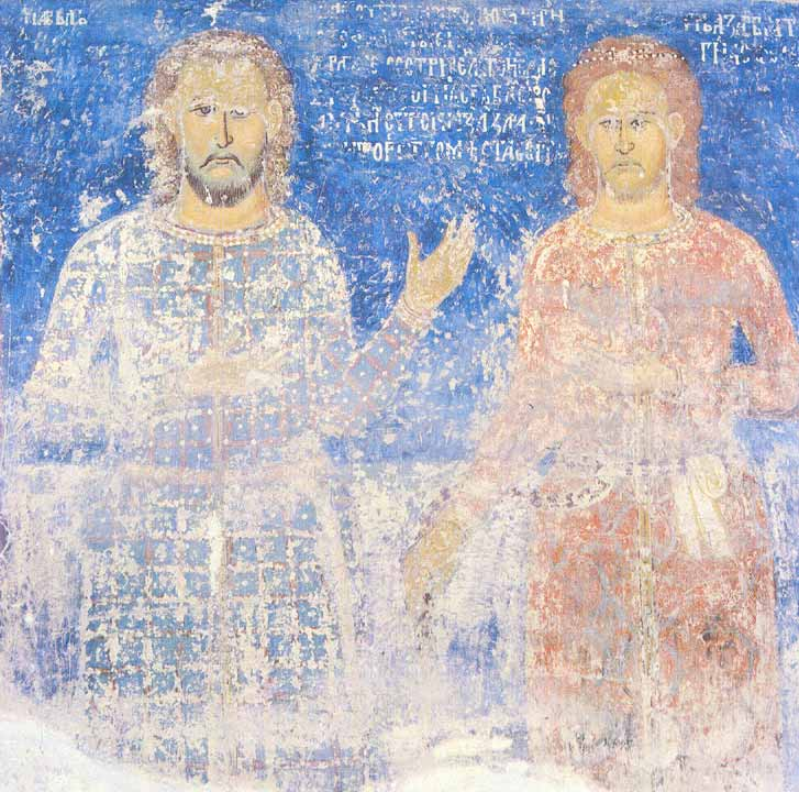 Serbian nobles Musići, second half of XIV century, monastery Nova Pavlica, Serbia